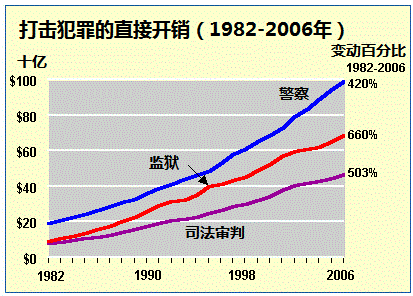 Yearly U.S. spending. Direct expenditure by criminal justice function, 1982-2006. "Direct expenditure for each of the major criminal justice functions (police, corrections, judicial) has been increasing." Simplified Chinese editon